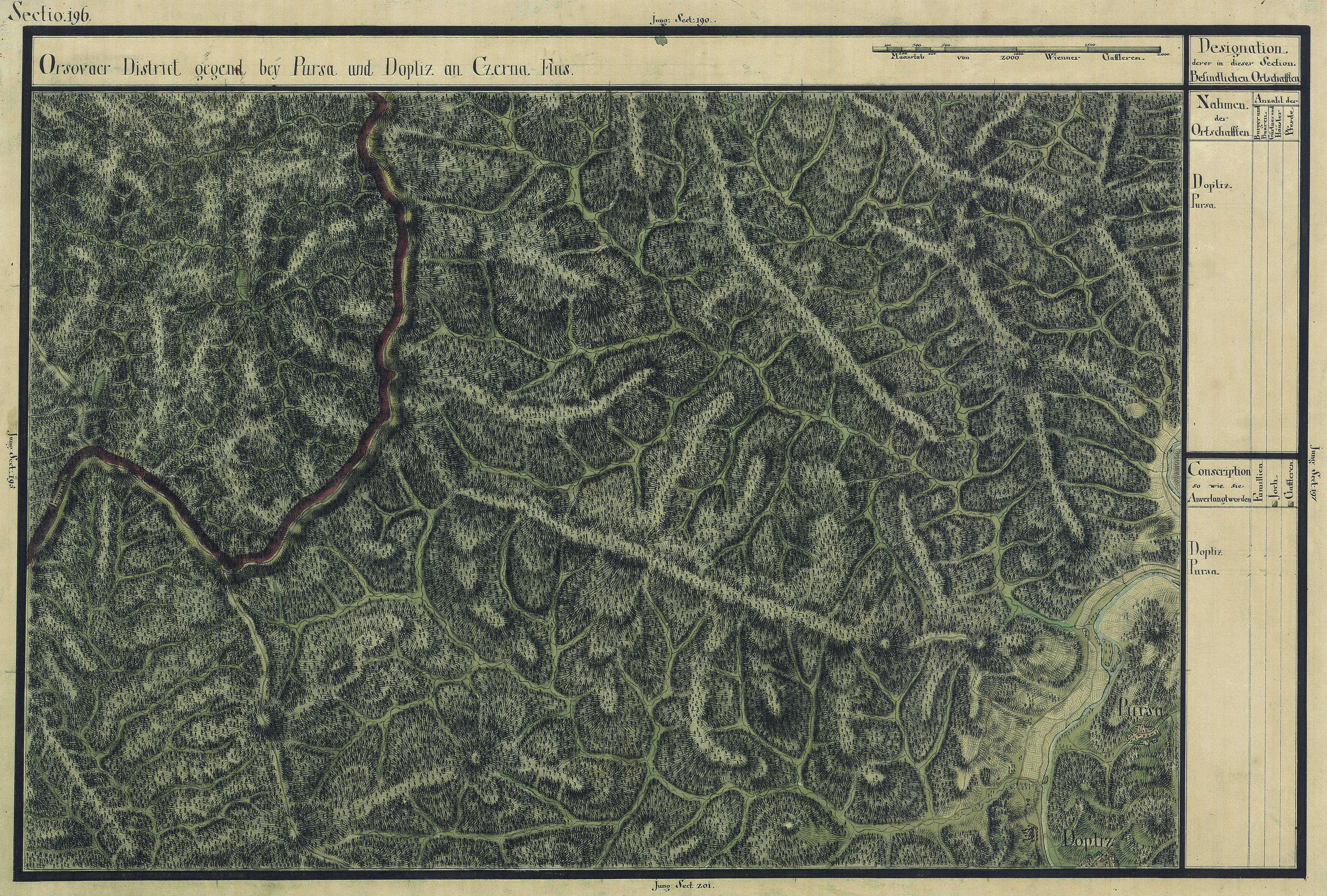 The Banat region in the cadastral maps: Josephinische Landesaufnahme, 1769-72. Josephinische Landaufnahme pg196